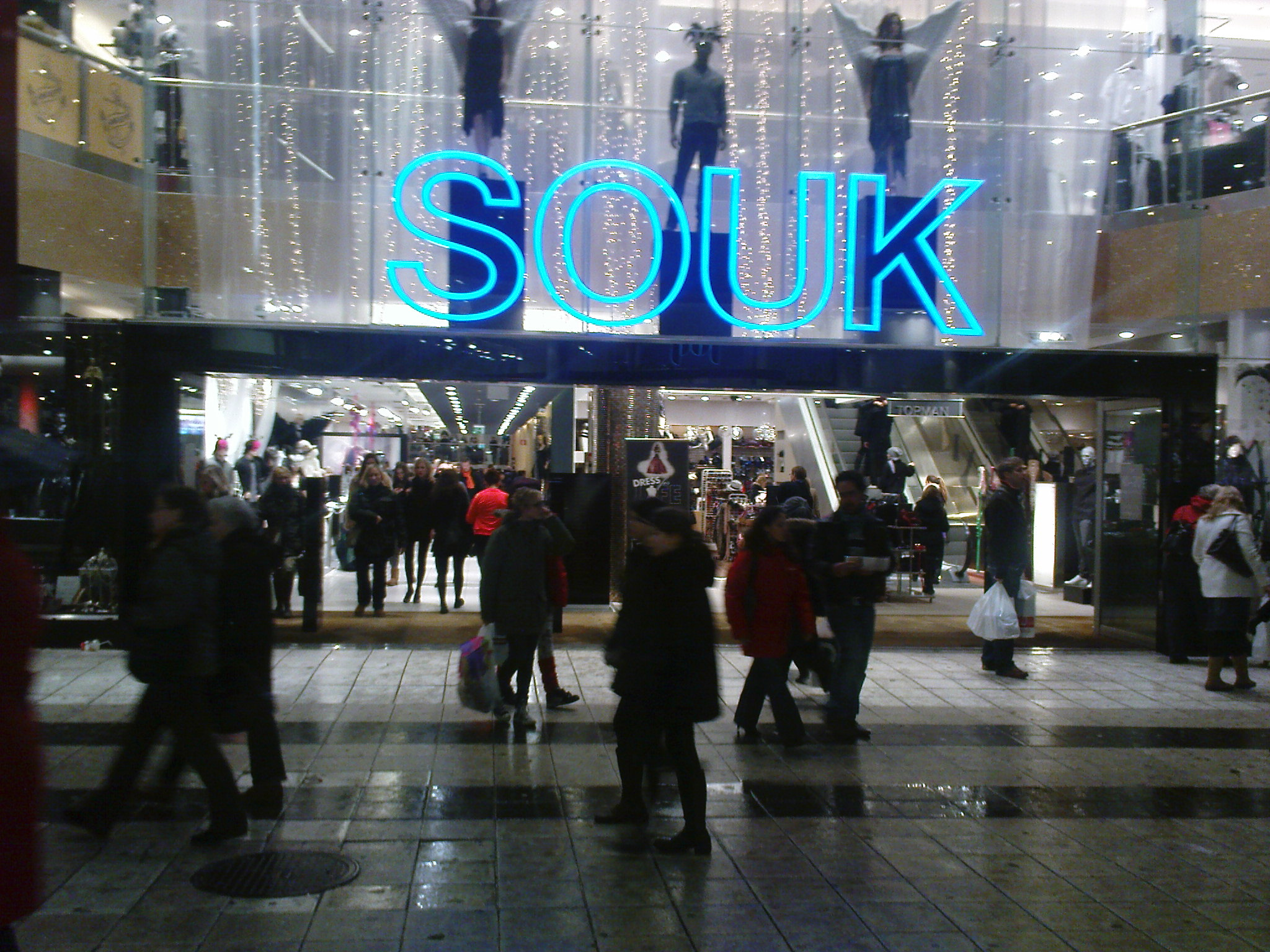 The store SOUK in Stockholm.